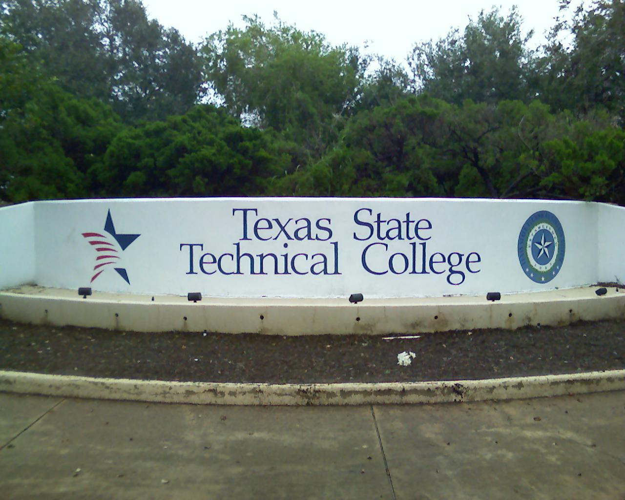 entrance to tstc harlingen